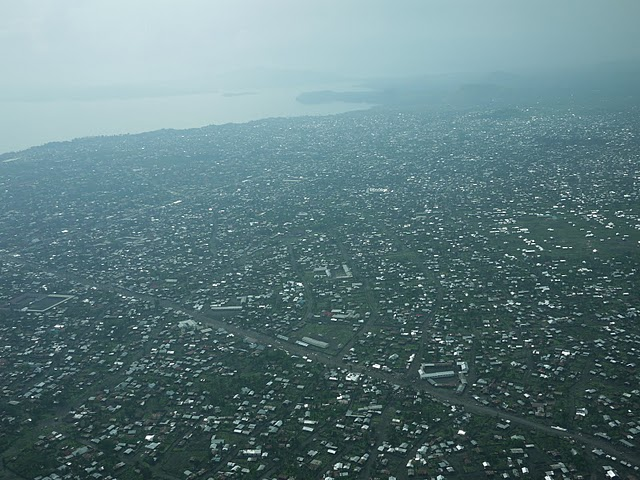 Goma and Lake Kivu (DR Congo)